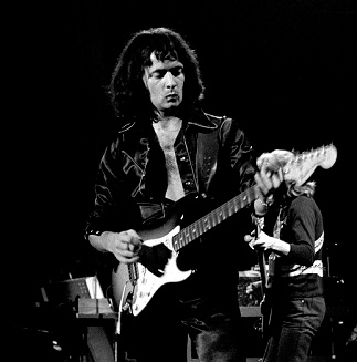 Ritchie Blackmore performing with Rainbow at Chateau Neuf, Oslo, Norway, September 27th 1977.